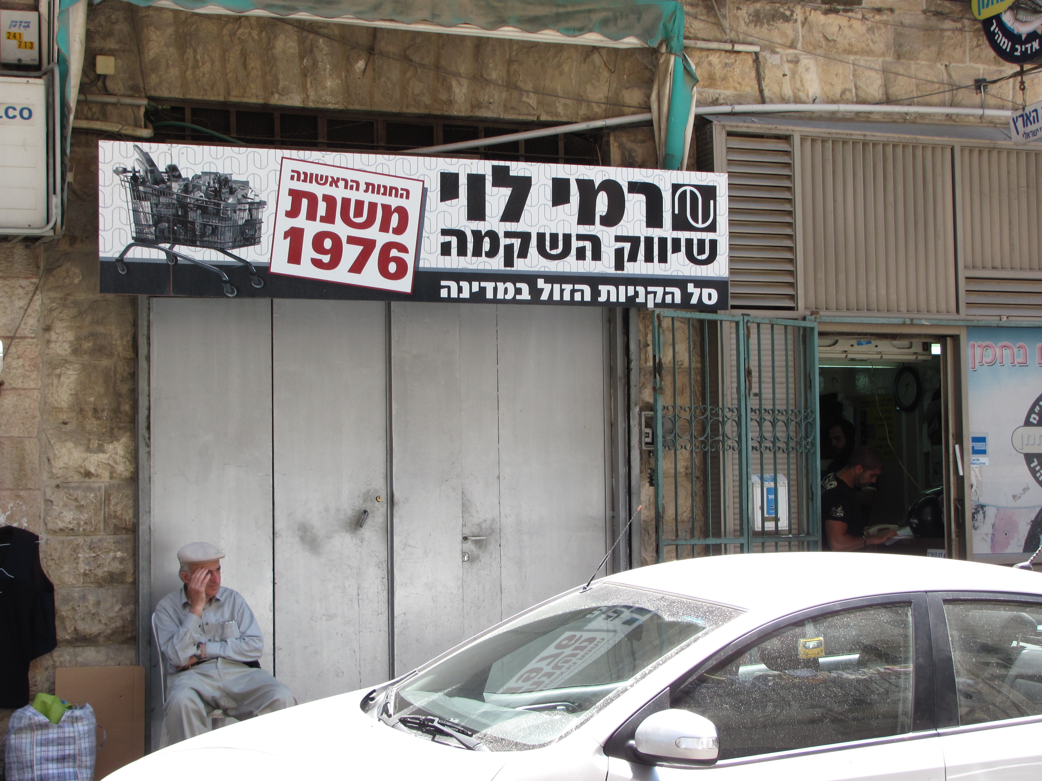 The first store opened by Rami Levi, on Hashikma Street in the Mahane Yehuda Market district of Jerusalem. The Hebrew sign reads: "Rami Levi Hashikma Marketing. Cheapest basket of purchases in the country. First store. From 1976."